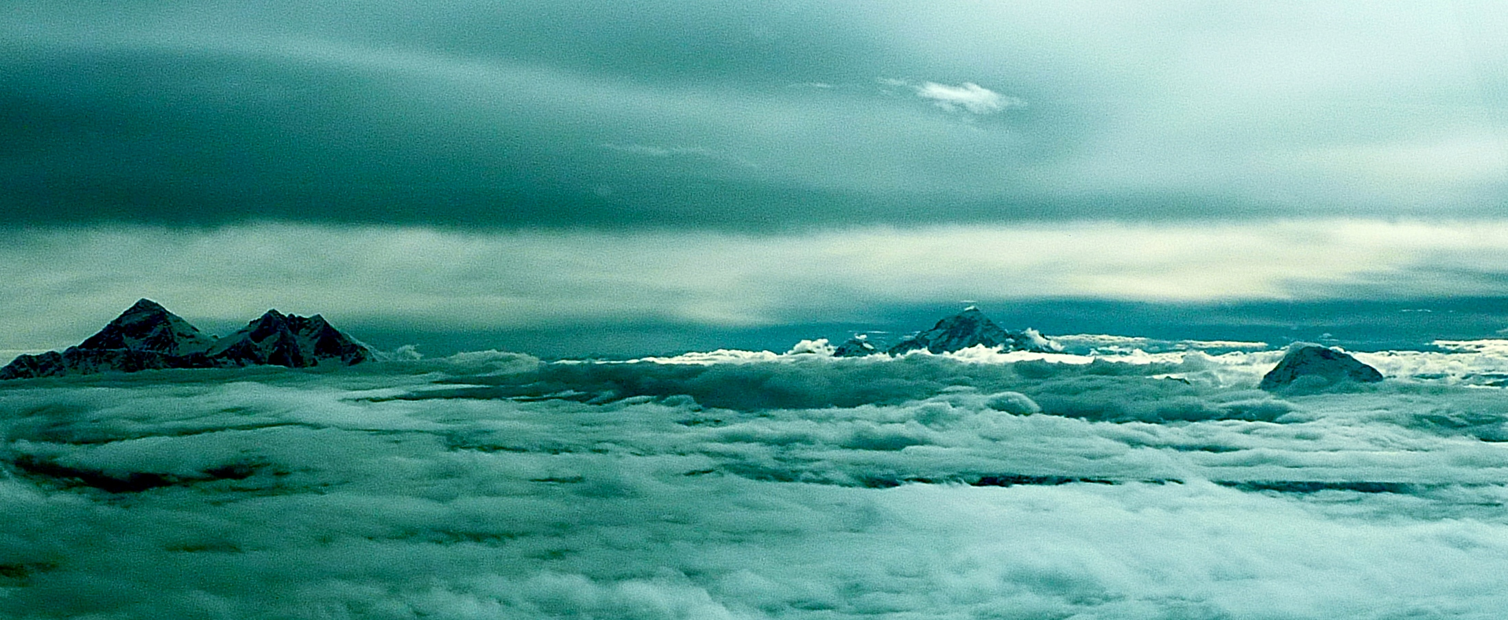 Mount Everest, Lhotse, Makalu and Chamlang (from left to right)